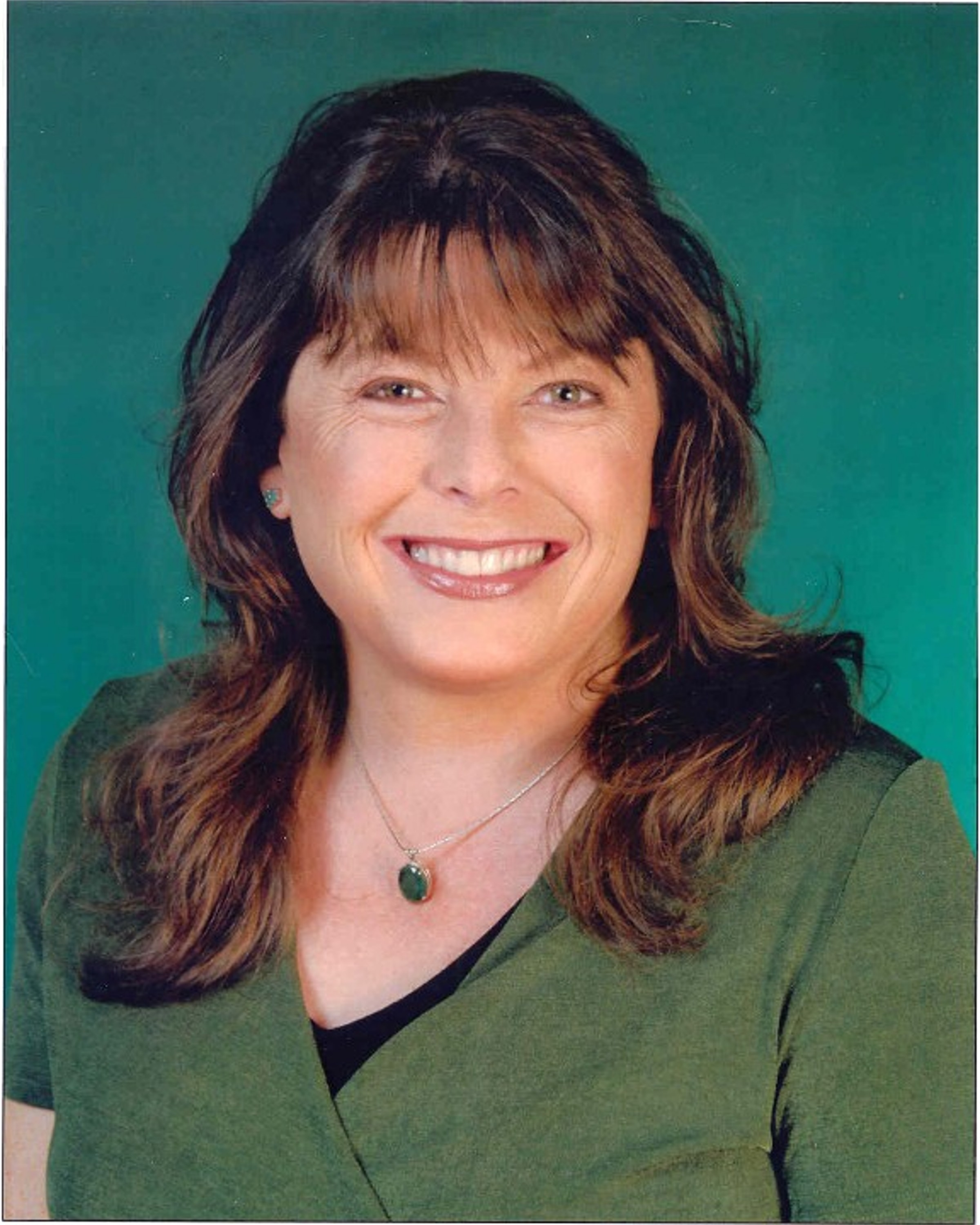 Dawn Lyn, taken in Waikiki